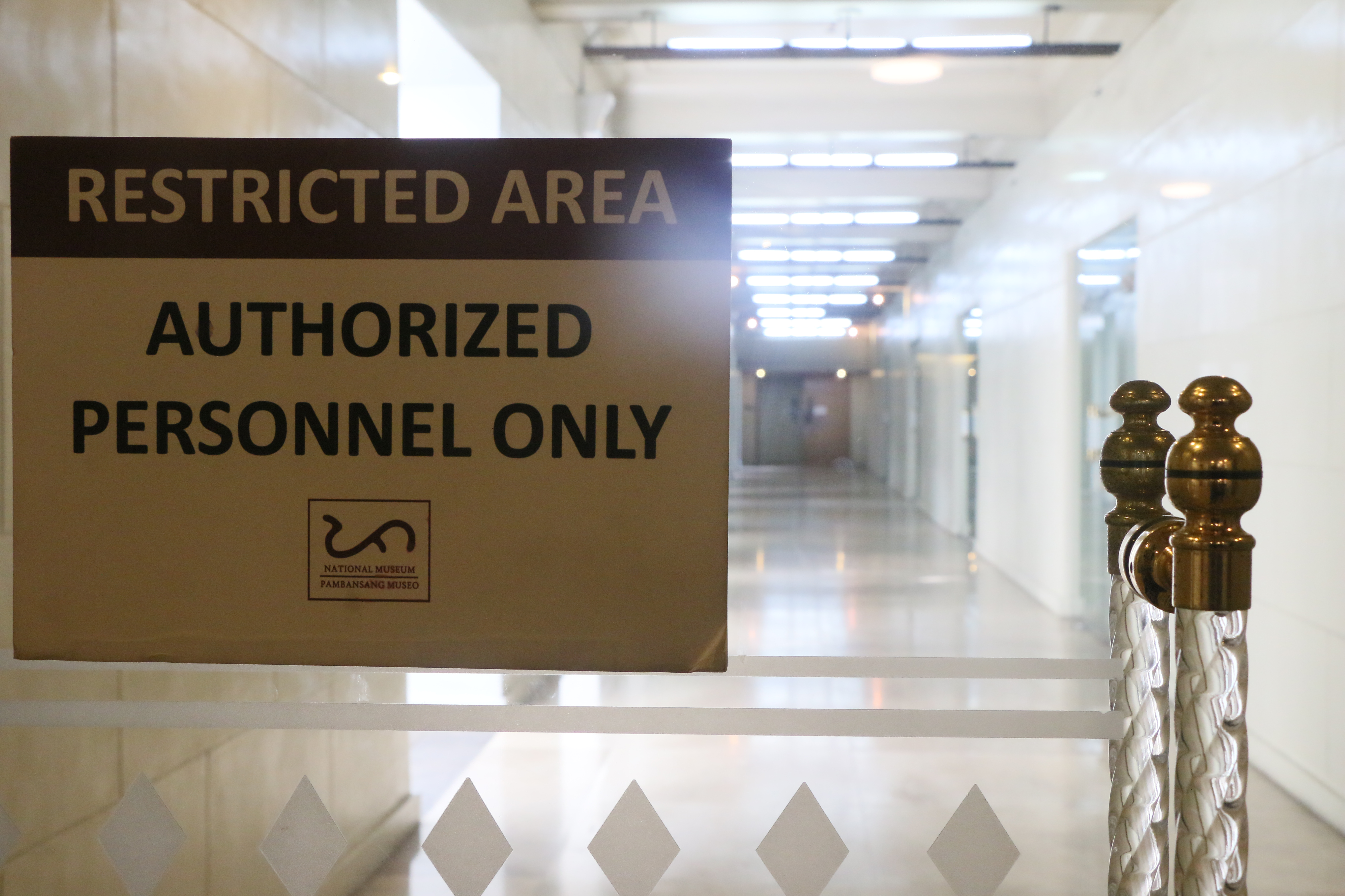 Offices